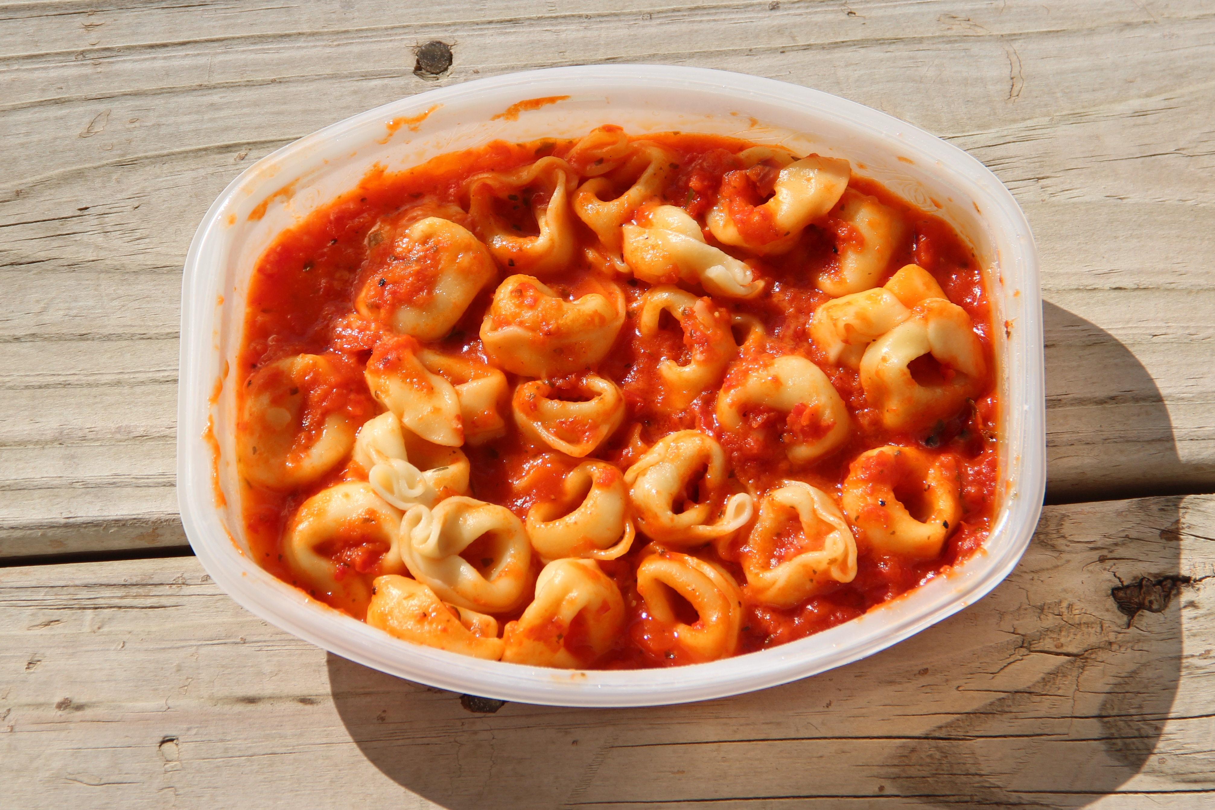 Cooked Lean Cuisine Tortellini